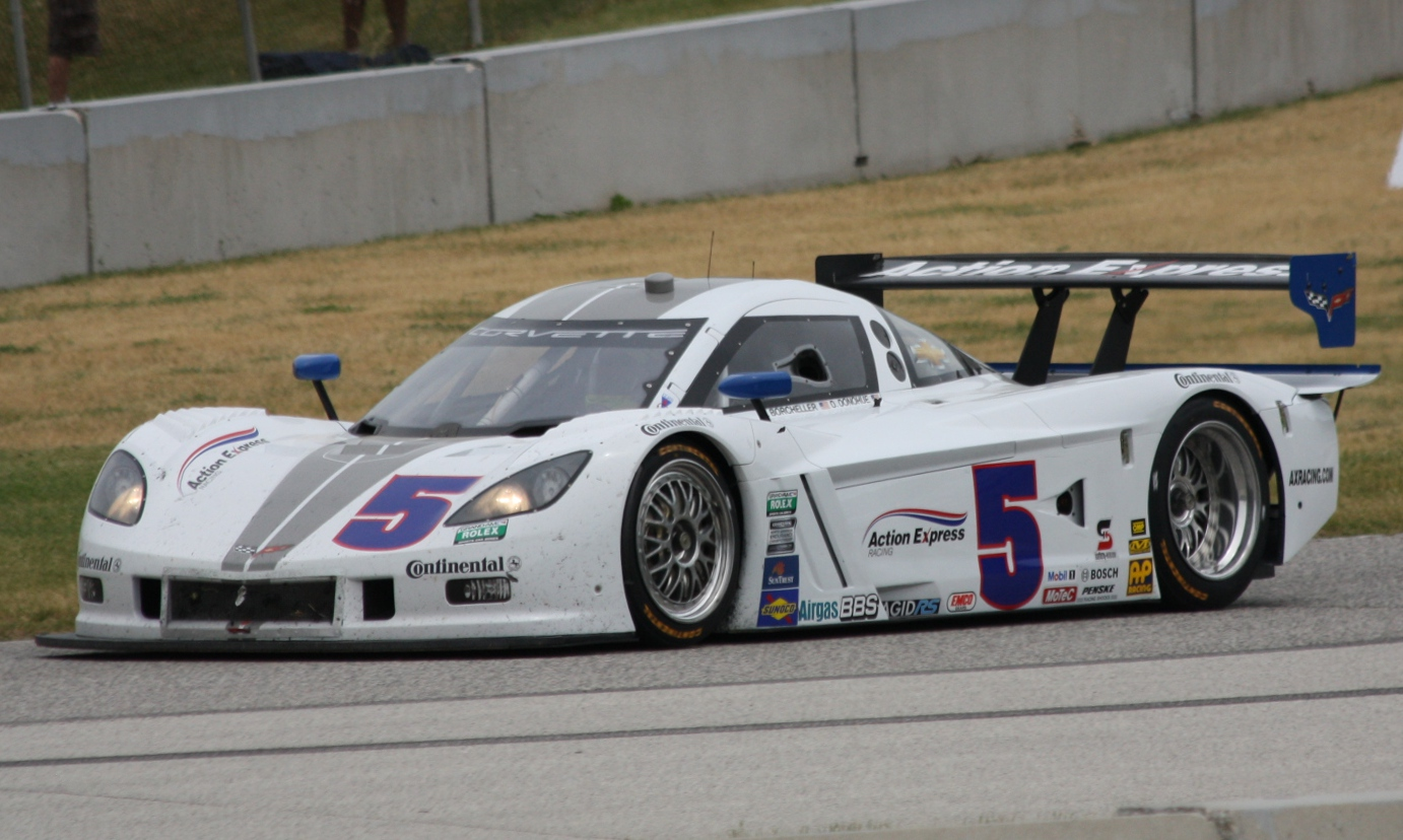 The Action Express Racing Daytona Prototype driven by Terry Borcheller and David Donohue at a 2012 race at Road America.